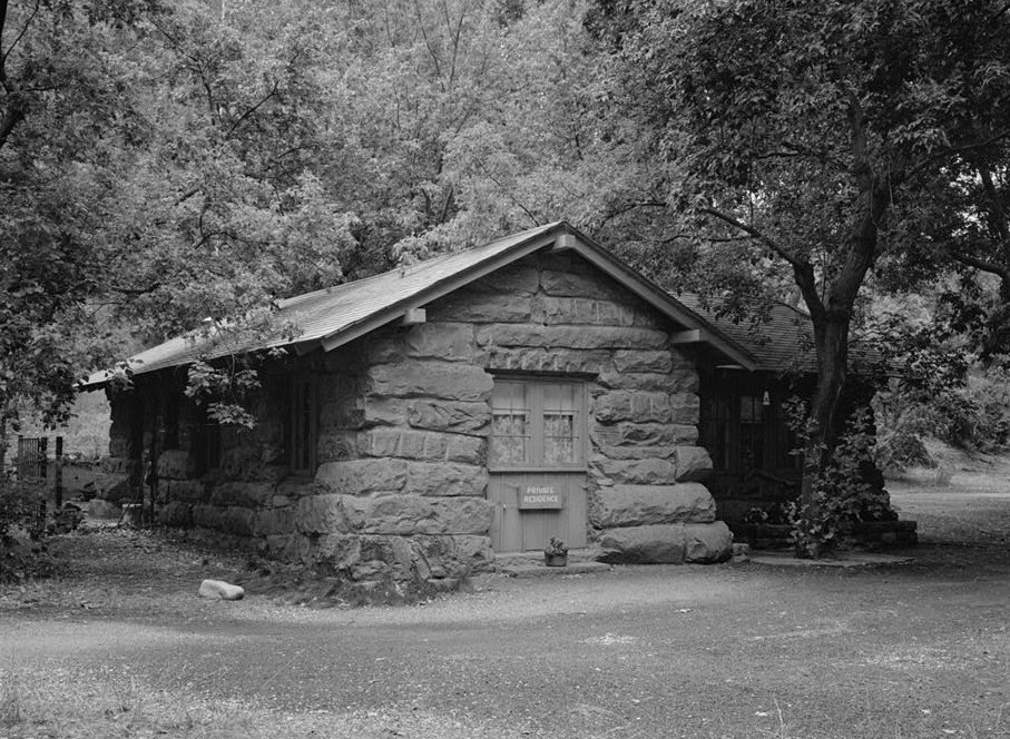 Zion Museum — Springdale vicinity of Zion National Park (Washington County, Utah). Museum-Grotto Residence. Image courtesy of Historic American Buildings Survey—HABS - (cropped). This file comes from the Historic American Buildings Survey (HABS), Historic American Engineering Record (HAER) or Historic American Landscapes Survey (HALS). These are programs of the National Park Service established for the purpose of documenting historic places. Records consist of measured drawings, archival photographs, and written reports. When reusing please credit: Library of Congress, Prints & Photographs Division, HABS UT-108-D This tag does not indicate the copyright status of the attached work. A normal copyright tag is still required. See Commons:Licensing. This work is in the public domain in the United States because it is a work prepared by an officer or employee of the United States Government as part of that person’s official duties under the terms of Title 17, Chapter 1, Section 105 of the US Code. Note: This only applies to original works of the Federal Government and not to the work of any individual U.S. state, territory, commonwealth, county, municipality, or any other subdivision. This template also does not apply to postage stamp designs published by the United States Postal Service since 1978. (See § 313.6(C)(1) of Compendium of U.S. Copyright Office Practices). It also does not apply to certain US coins; see The US Mint Terms of Use. This file has been identified as being free of known restrictions under copyright law, including all related and neighboring rights.